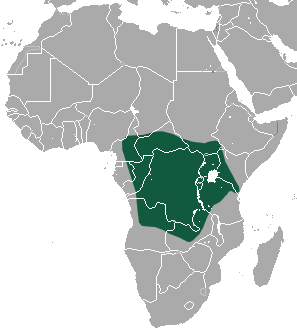 Small-footed Shrew (Crocidura parvipes) range